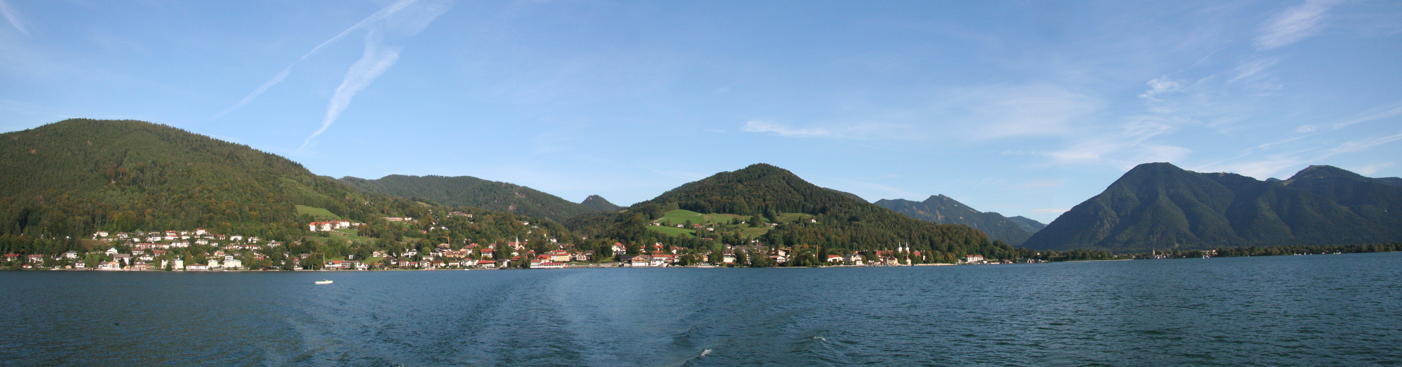 Tegernsee, small town in Upper Bavaria, view from the lake side